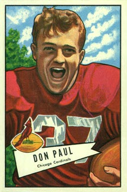 American football player Don Paul (defensive back) on a 1952 Bowman Large card.